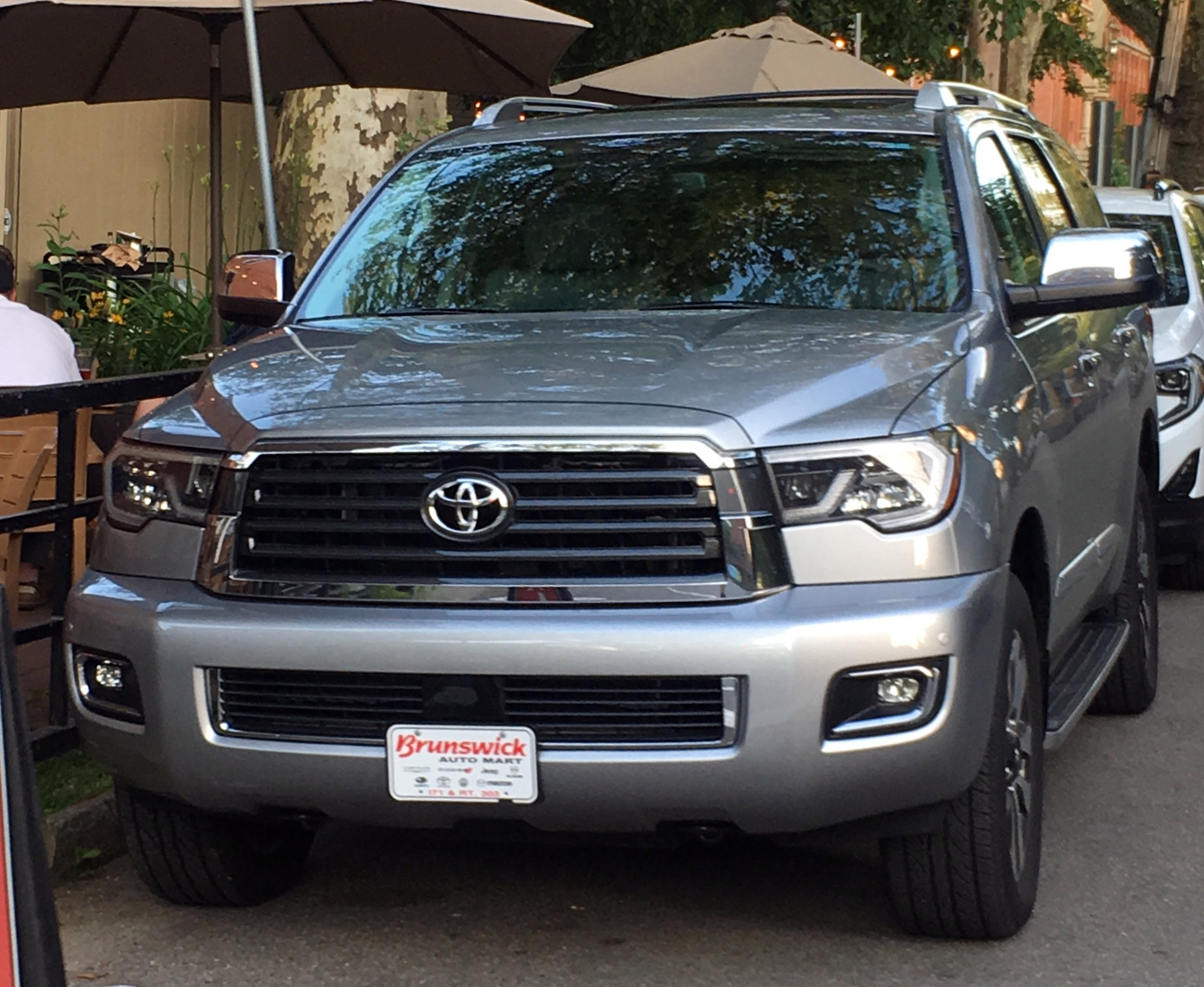 Toyota Sequoia